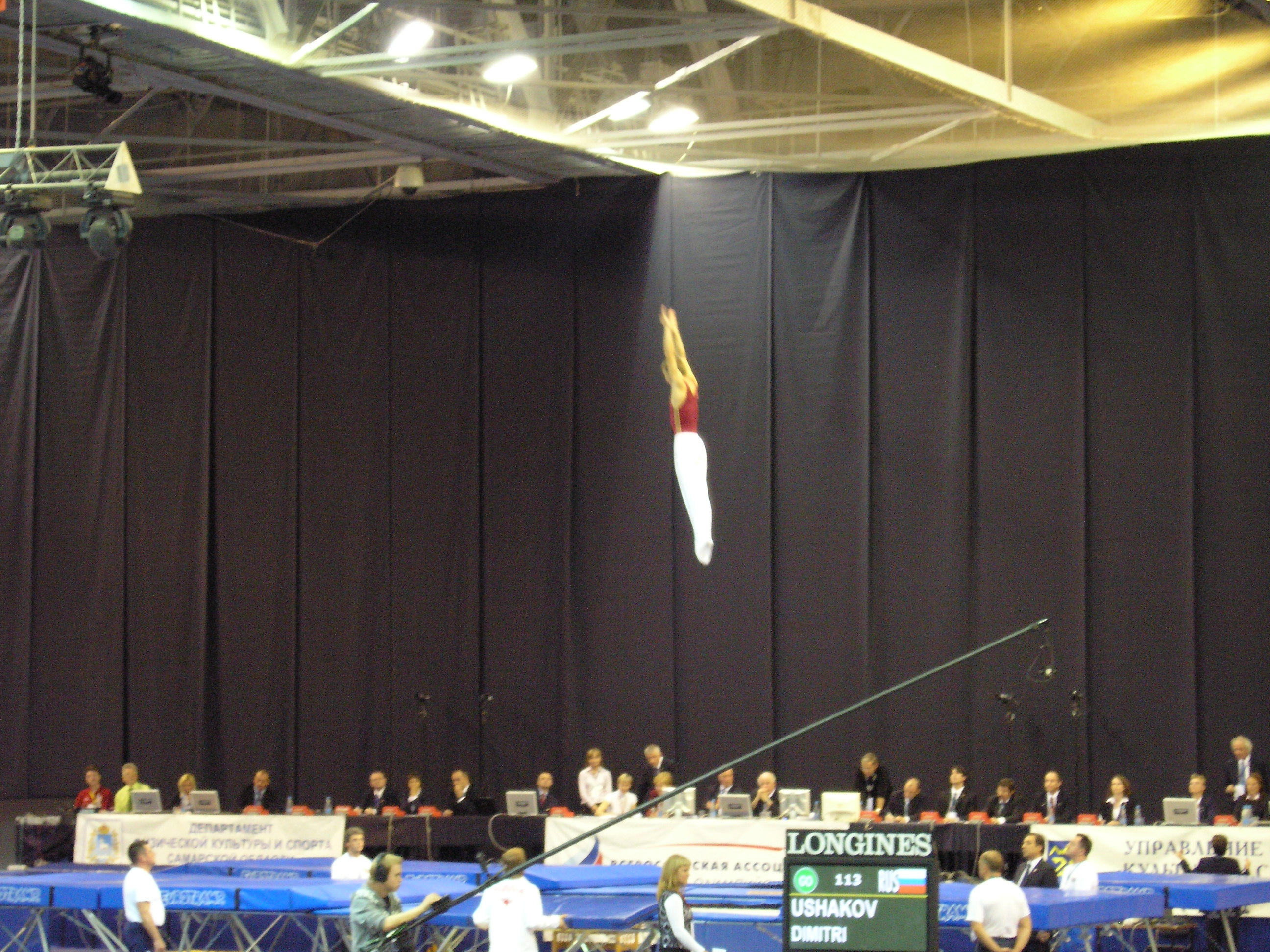 Dmitry Ushakov, russian gymnast